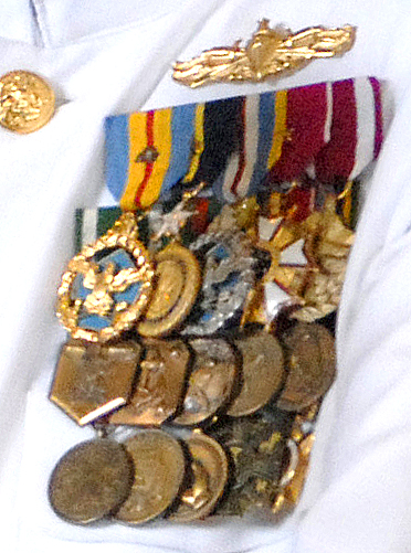 Close-up of medals worn by ADM Michael G. Mullen.